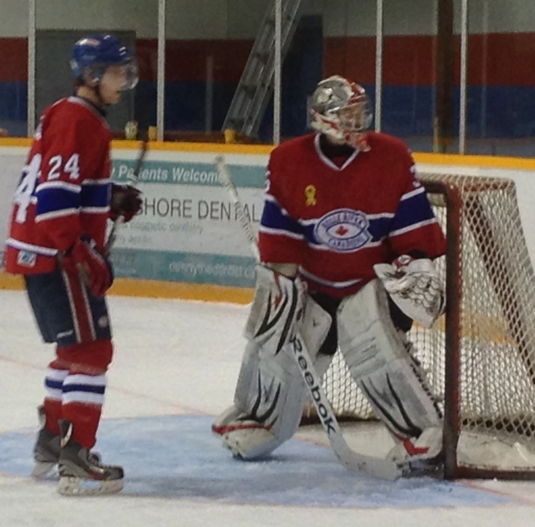 These images of GLJHL action are taken by Devan Mighton.